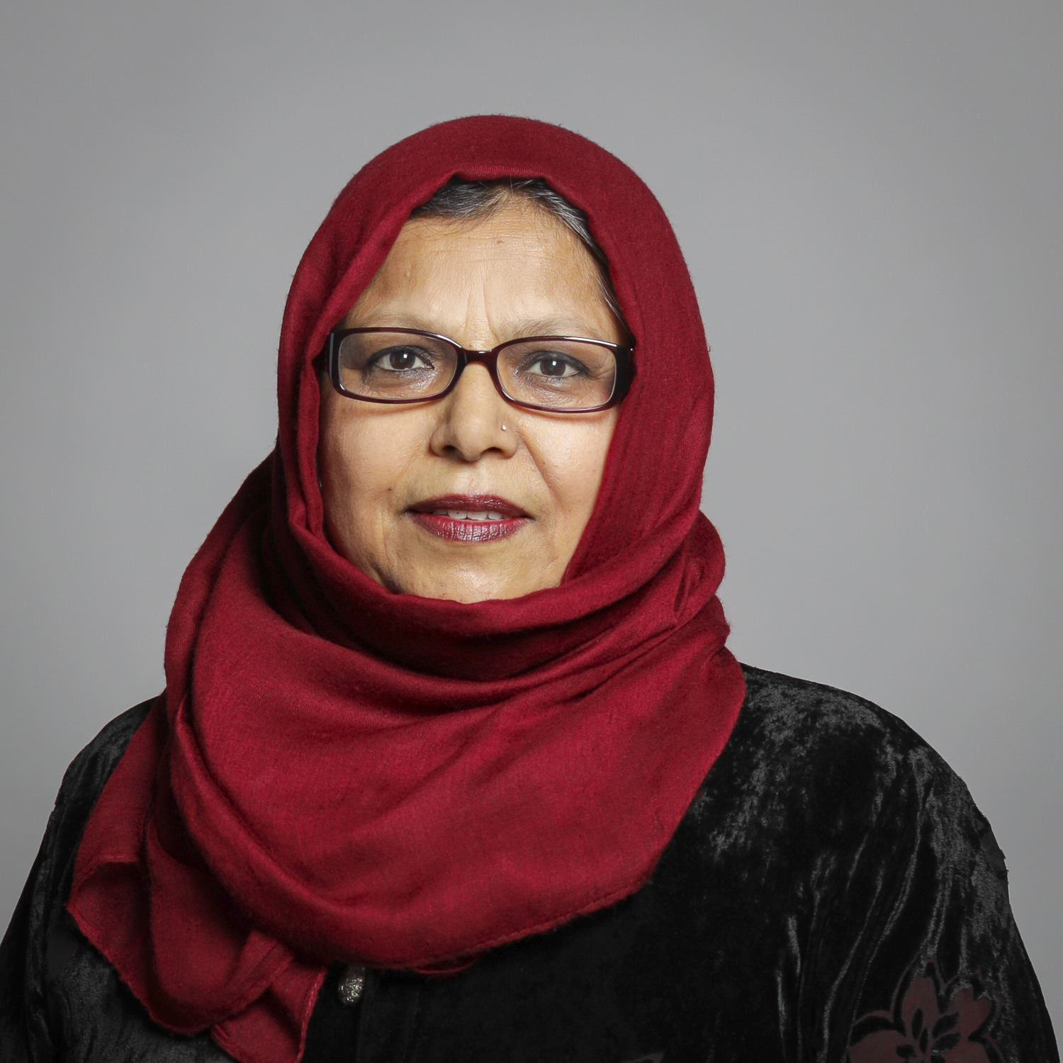 Official portrait of Baroness Uddin 1×1 portrait of Baroness Uddin